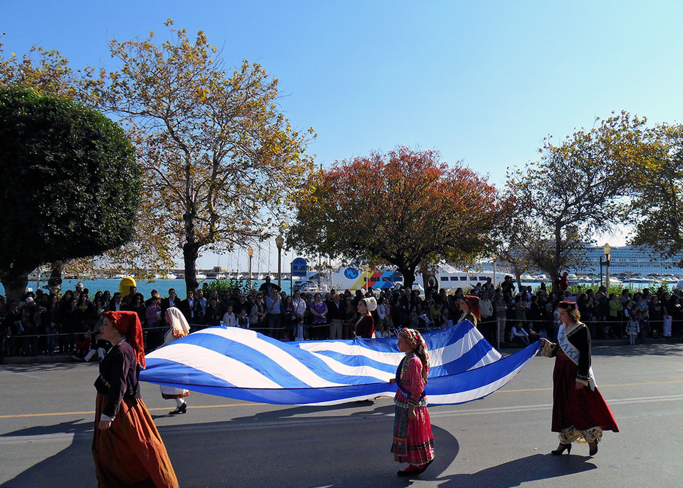 Parade in recognition of Ohi Day of greece island Rhodes.